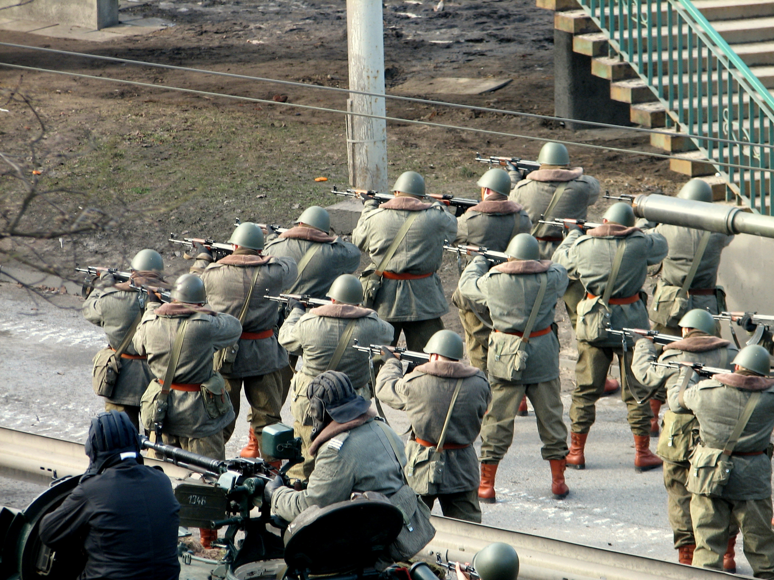 Filming of "Black Thursday" at Podjazd Street, Gdynia. People on this picture are actors, extras, and film crew. "Black Thursday" is a film about Polish 1970 protests.